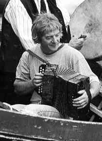 Charlie Piggott plays a a Black Dot Hohner Double-Ray, tuned C#/D.